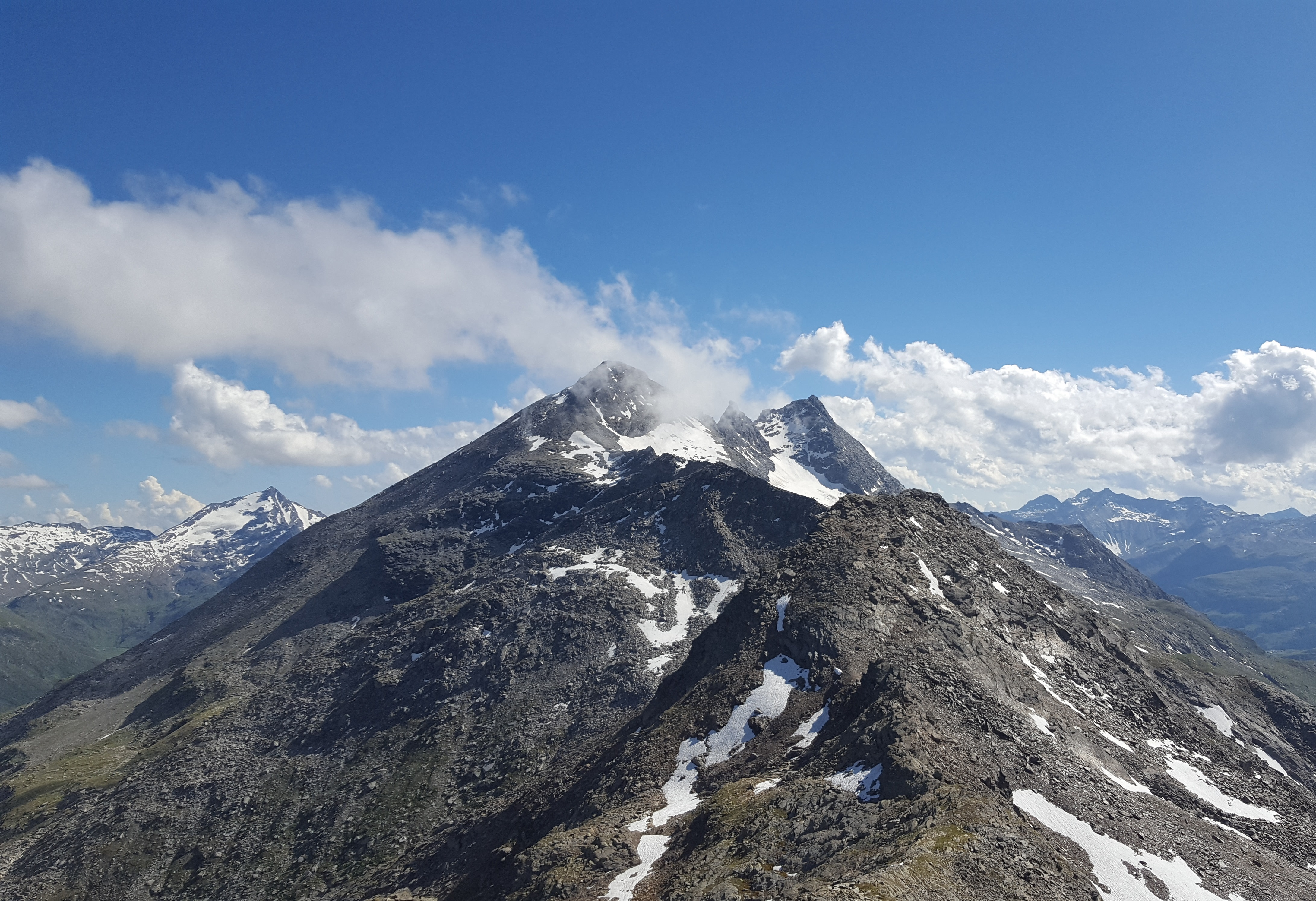 Piz dil Crot, Pizzo Crotto, Piz della Palù and Piz Timun/Pizzo d'Emet, picture taken from Piz Miez/Cimalmotta (Ferrera, Grison, Switzerland - Italy)